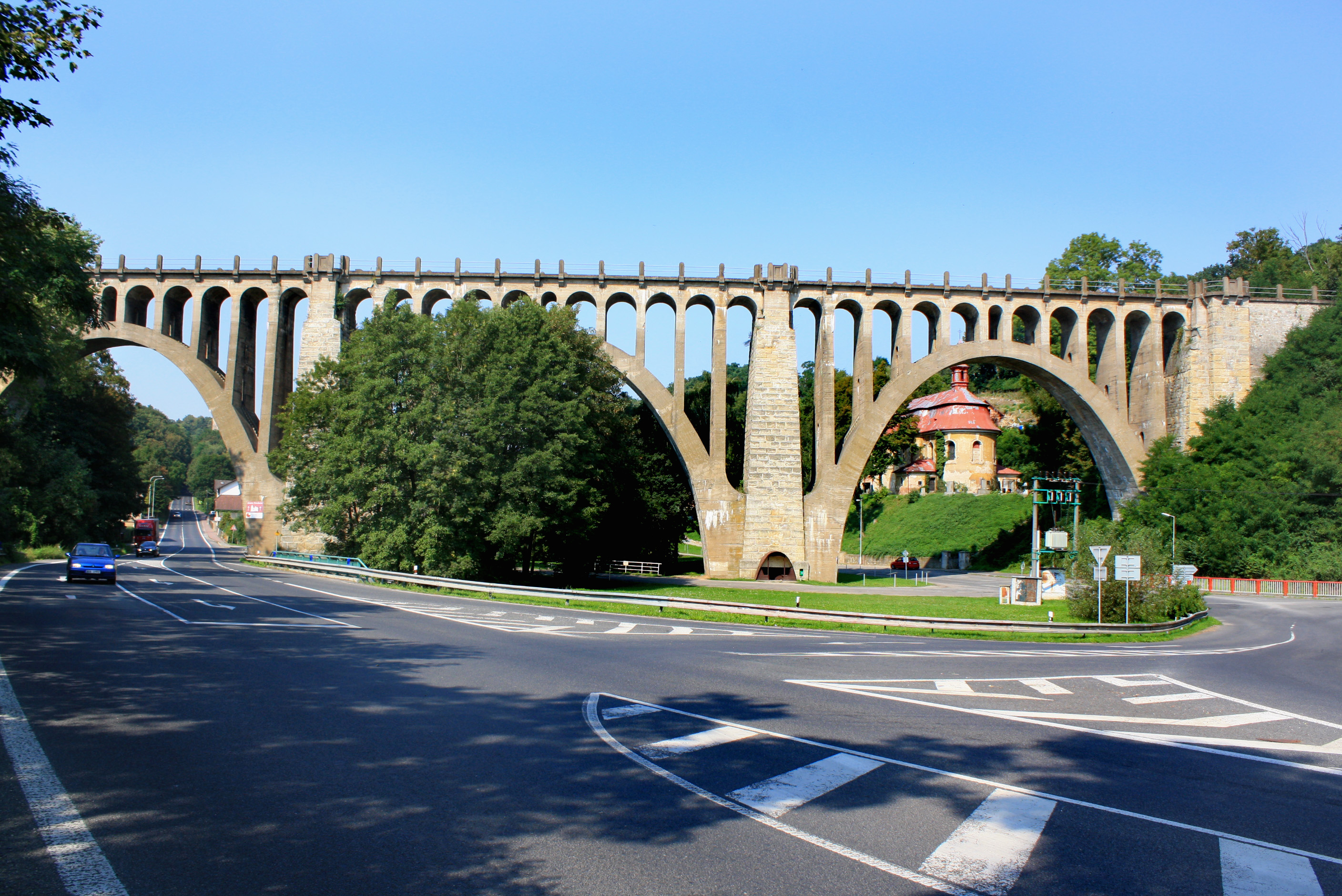 Protected railway bridge in Krnsko, Czech Republic